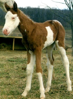 Chestnut Splash White